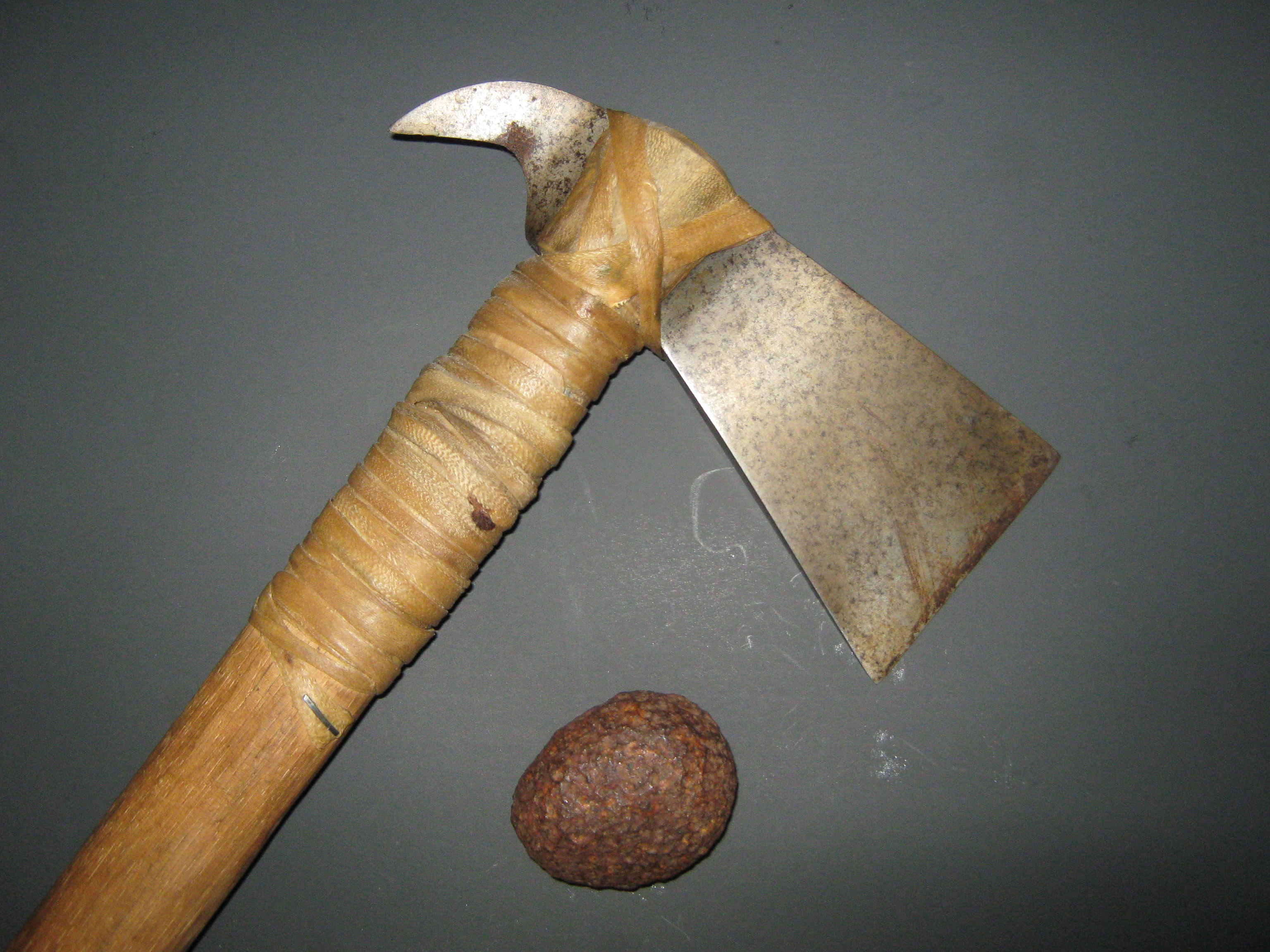 An iron meteorite found on Fox Island, near Seward Alaska. The hatchet was forged from a similar meteorite, and the remnants of the Widmanstatten structures are visible in the blade.